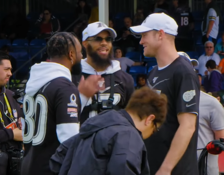 Keenan Allen, Jarvis Landry, and Ryan Tannehill